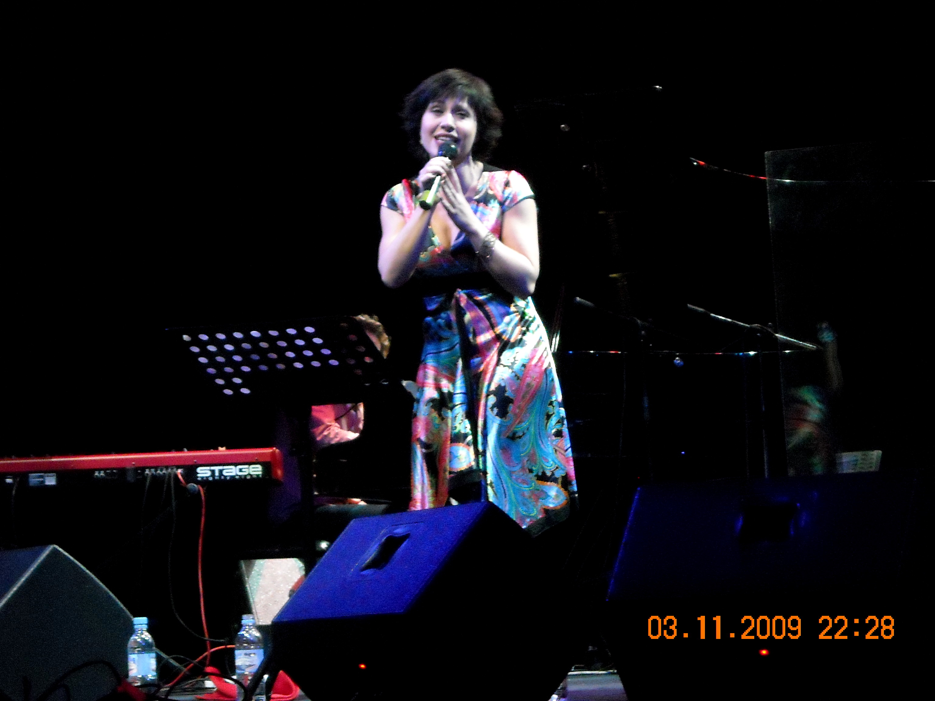 Veronica Mortensen on the stage of Jazz Province, Kursk, 2009